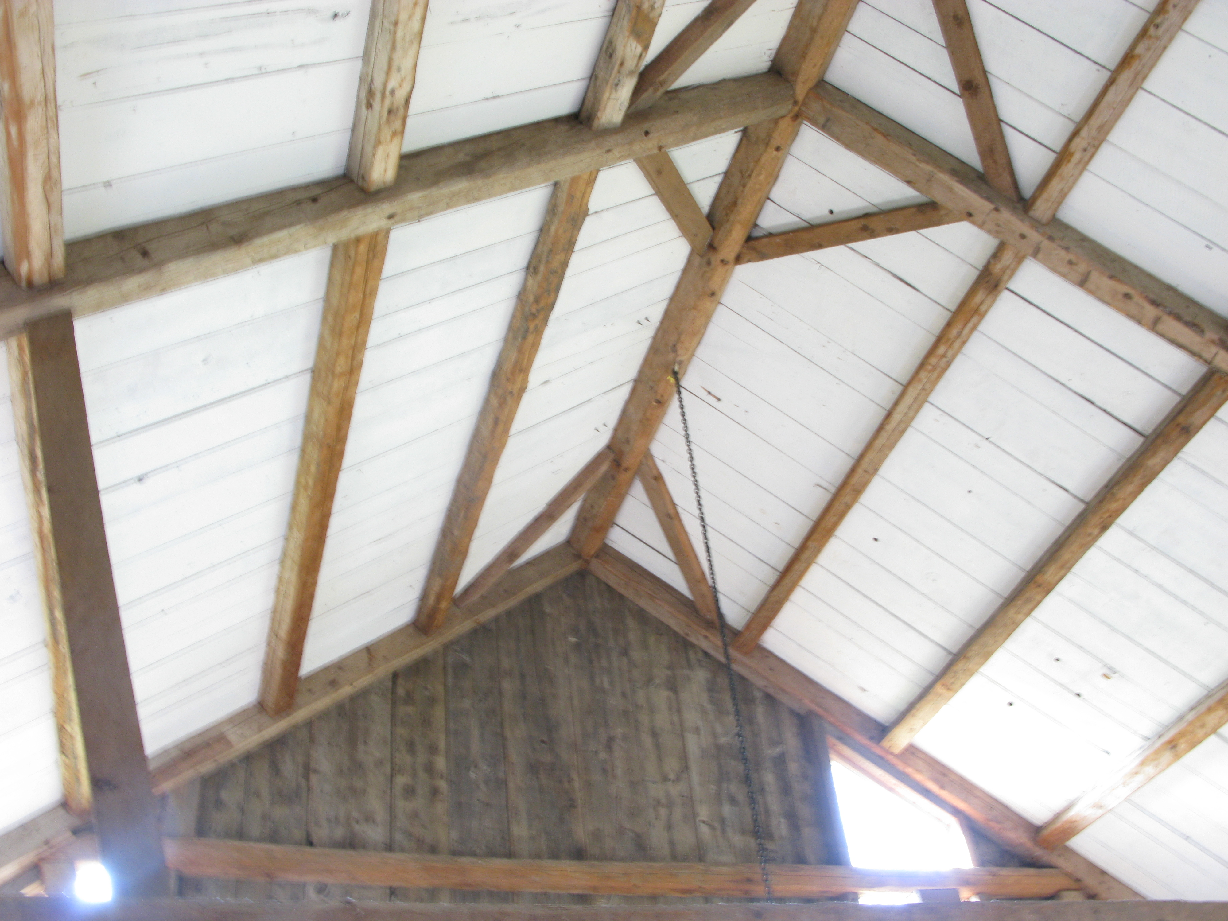 This barn roof framing is of "common purlin" construction which is commonly found in old buildings in most of New England and some other regions. The wind braces between the principal rafters and the ridge beam are characteristic of a "five sided ridge" beam.